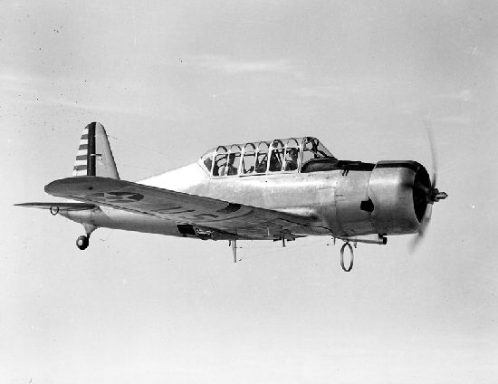 A U.S. Army Air Forces Vultee BC-3 in flight. The Vultee Model V.51 had a retractable landing gear and a 600 hp Pratt & Whitney R-1340-45 engine. Only one airplane was built which first flew on 24 March 1939. The fixed undercarriage version went into production as the BT-13 Valiant.